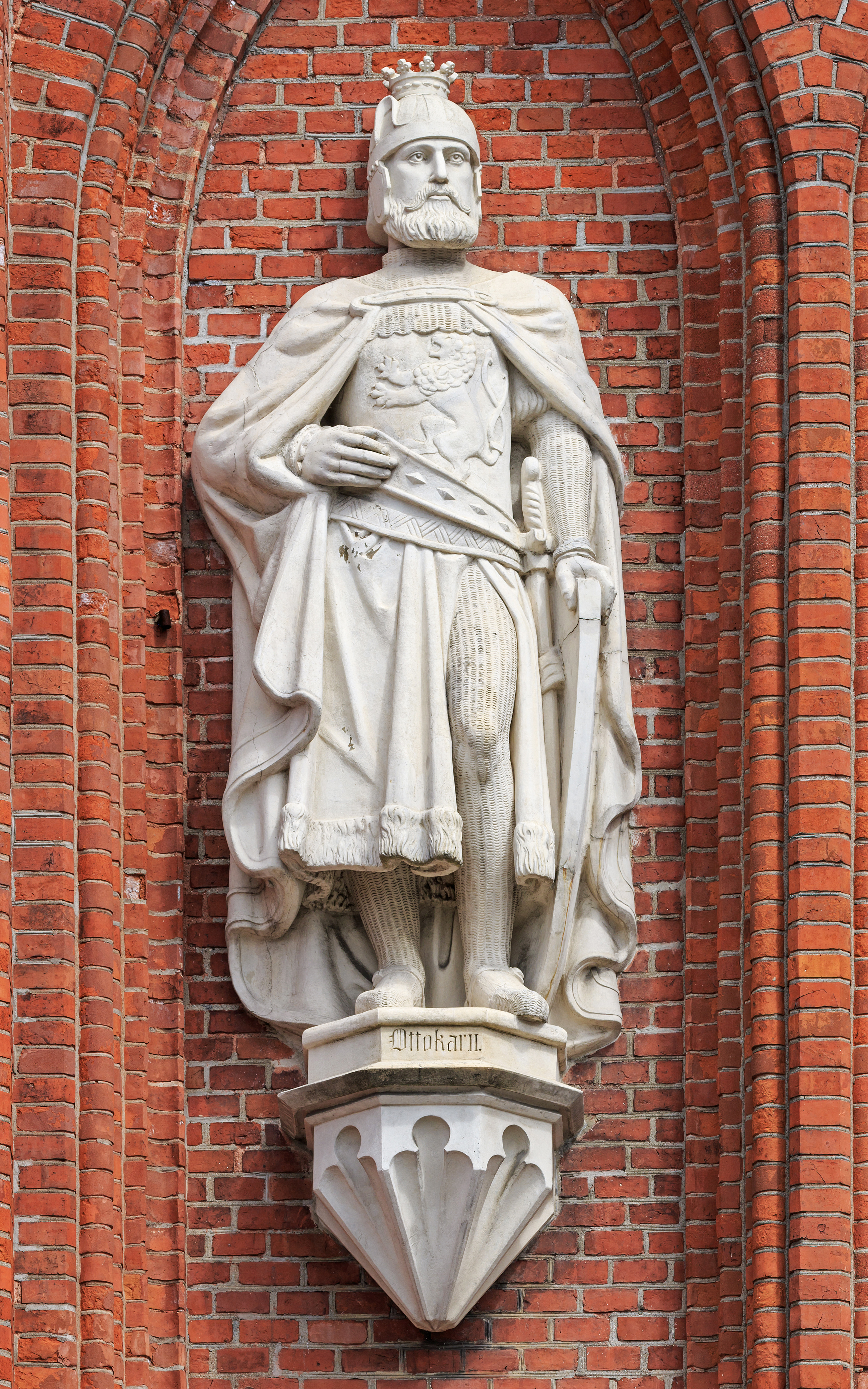 King's Gate in Kaliningrad formerly Königsberg, Kaliningrad Oblast (Russia).